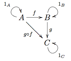 This is the collection of all morphisms on three objects typically denote by a bold face 3.